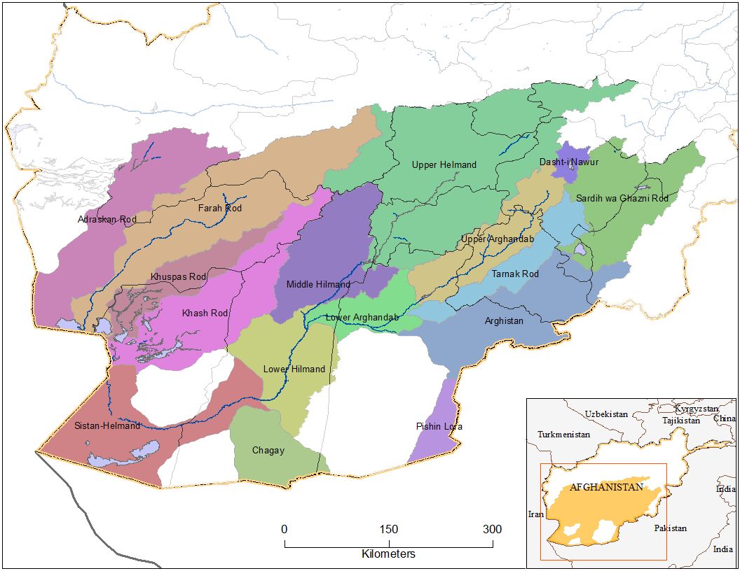 Sub-basins of the Helmand River, within Afghanistan only. Blank areas within the basin are non-drainage areas.